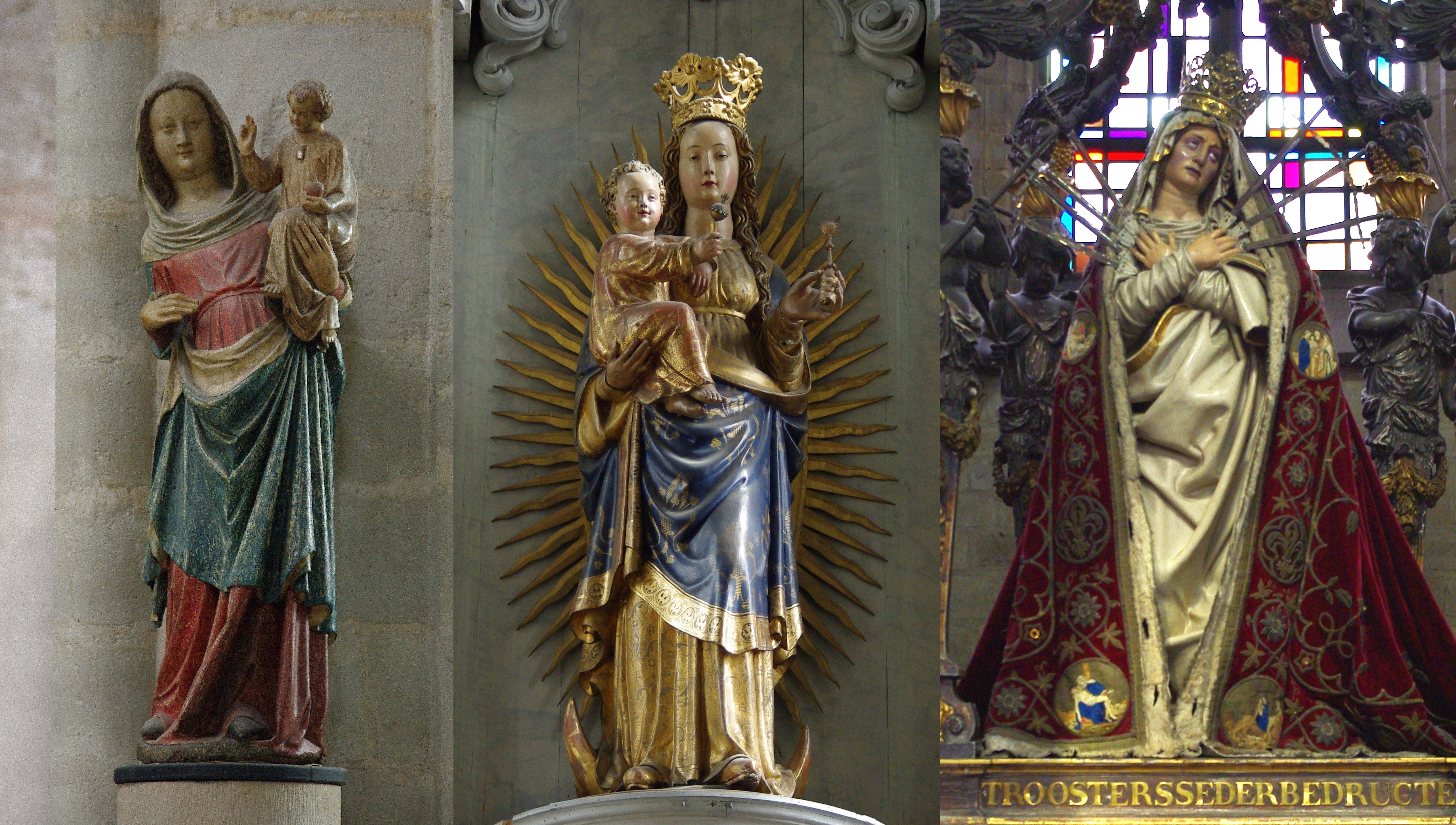 Three madonnas in the Onze-Lieve-Vrouw-over-de-Dijlekerk in Mechelen (Belgium): Onze-Lieve-Vrouw van Scheve Lee, OLV van Zon, OLV van Zeven Weeën